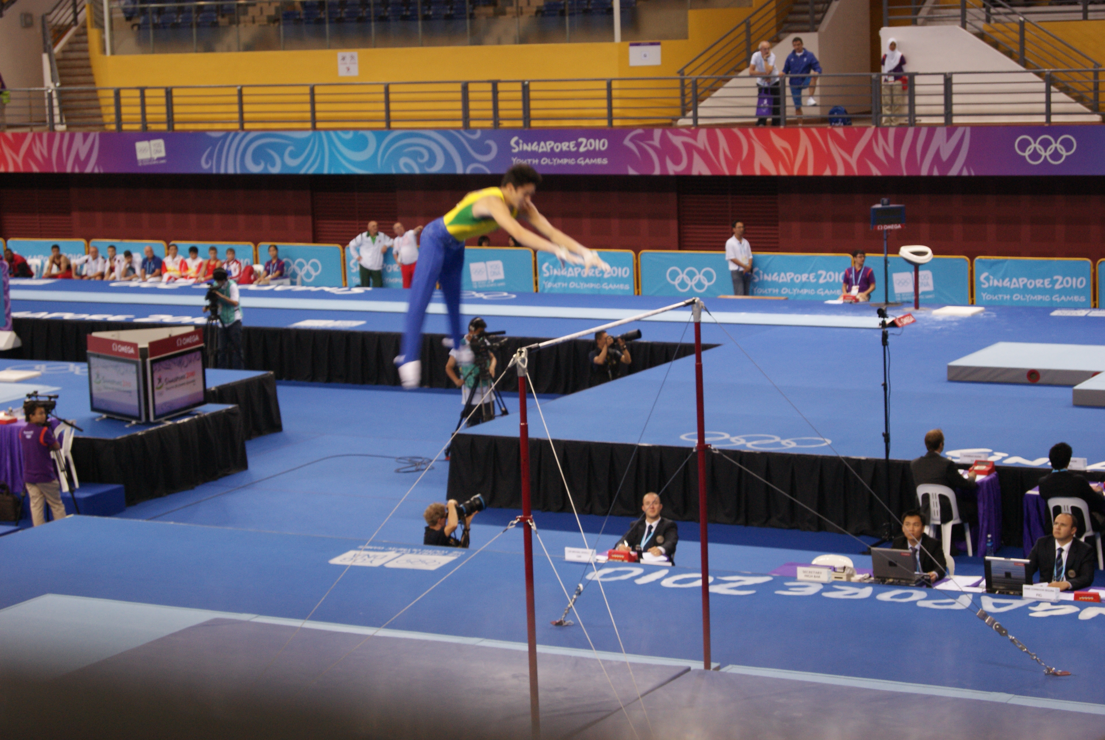 Brazilian gymnast Arthur Mariano performing on the horizontal bar during Men's Qualification – Subdivision 1 of the artistic gymnastics competition at the 2010 Summer Youth Olympics at Bishan Sports Hall, Singapore.